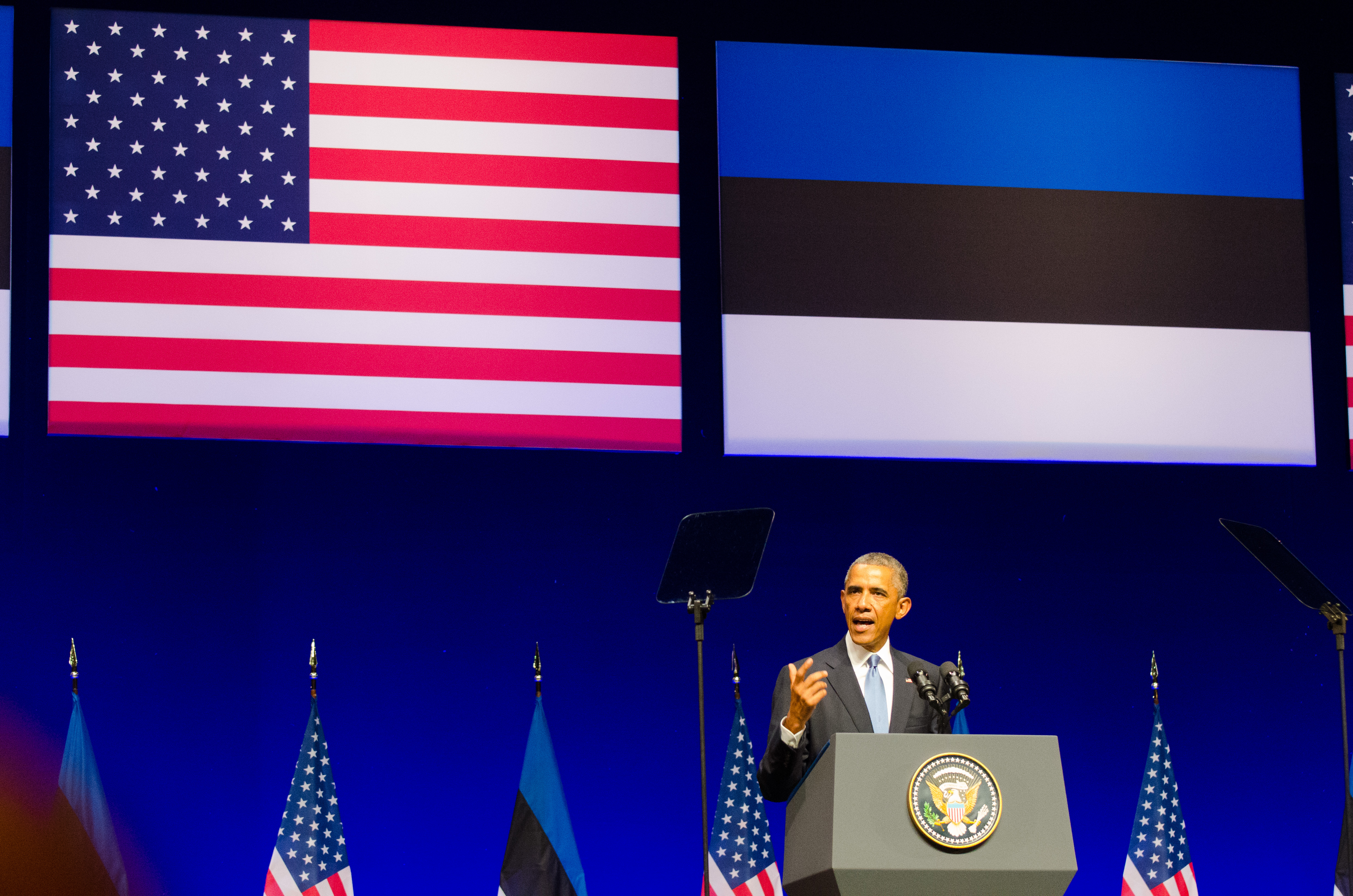 President of the United States of America Barack Obama came to Estonia. Among other things he gave a speech in Nordea Concert Hall. "It was not the government in Kyiv that destabilized eastern Ukraine; it’s been the pro-Russian separatists who are encouraged by Russia, financed by Russia, trained by Russia, supplied by Russia and armed by Russia. And the Russian forces that have now moved into Ukraine are not on a humanitarian or peacekeeping mission. They are Russian combat forces with Russian weapons in Russian tanks. Now, these are the facts. They are provable. They’re not subject to dispute."President Barack Obama in Nordea Concert Hall